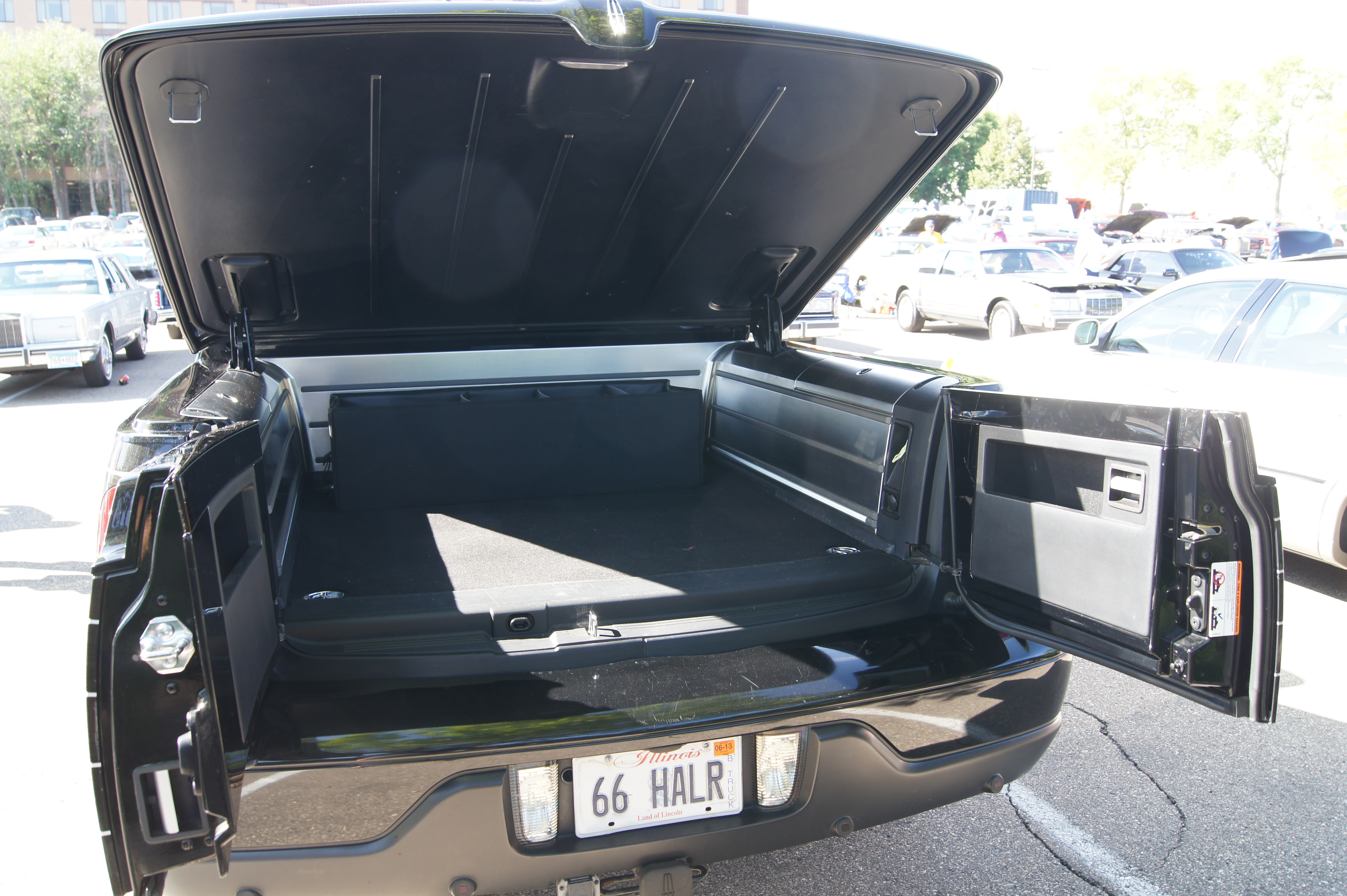 Photo of Lincoln Blackwood pickup truck bed with tailgate doors open and tonneau raised.